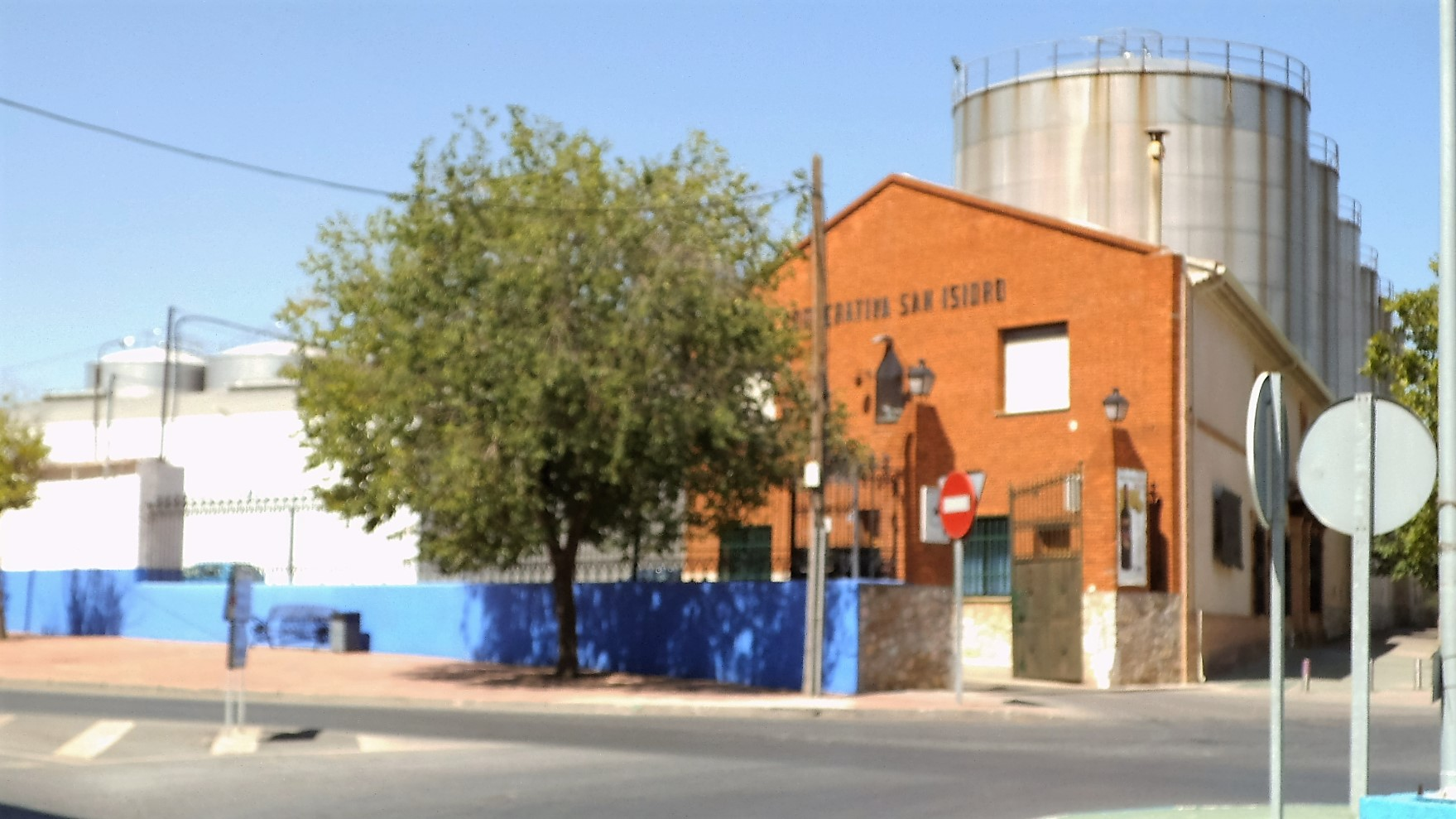 San Isidro Winery in Pedro Muñoz (Spain)